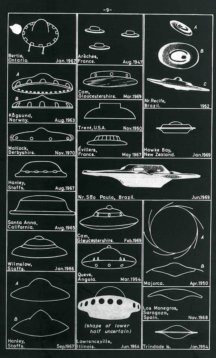 Unidentified Flying Object sightings. Date: c.1969 Our Catalogue Reference: AIR 20/11612 This image is from the collections of The National Archives. Feel free to share it within the spirit of the Commons. For high quality reproductions of any item from our collection please contact our image library.